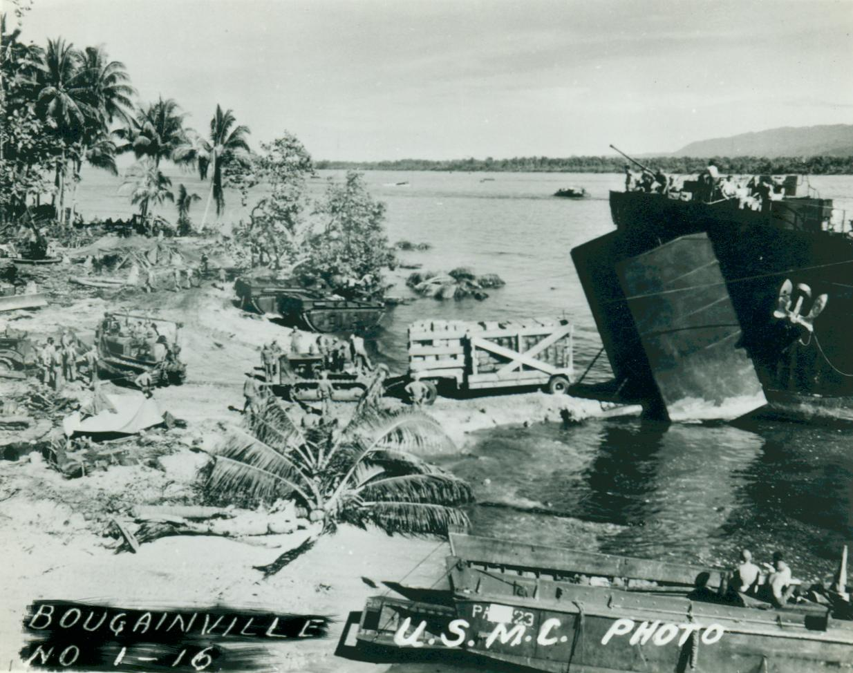 From the Frederick R. Findtner Collection (COLL/3890), Marine Corps Archives & Special Collections OFFICIAL USMC PHOTOGRAPH